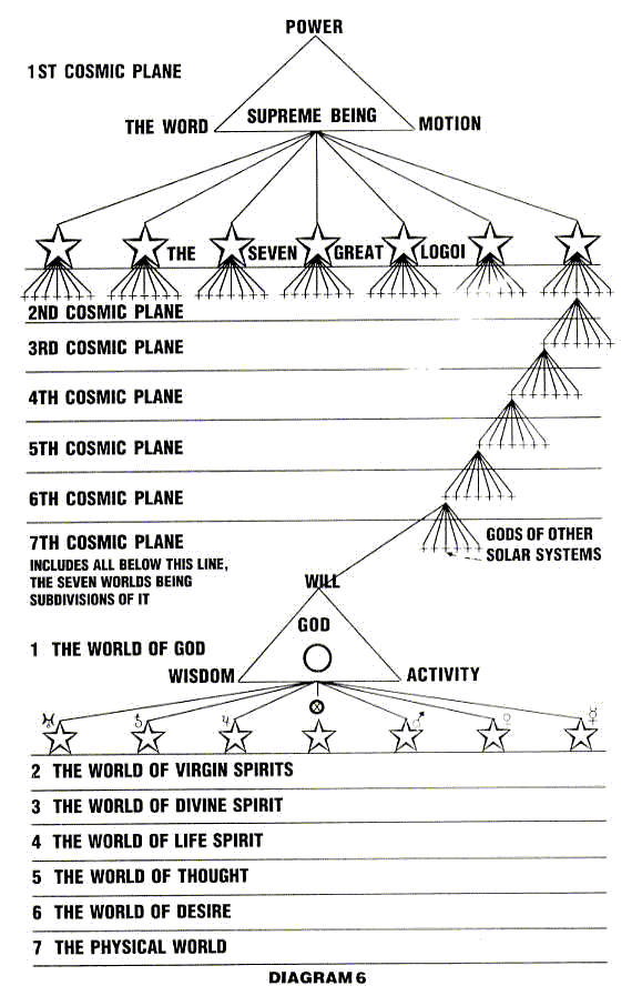 Diagram 6. The Supreme Being, the Cosmic Planes and God. Illustration of Max Heindel's Book The Rosicrucian Cosmo-Conception.